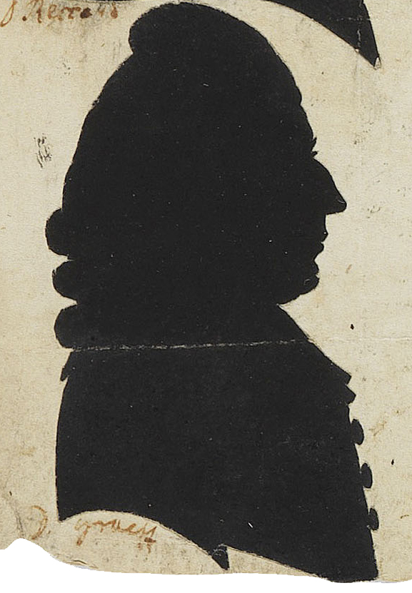 Johann Hartmann Christoph Gräf (1744–1820) was a German evangelical theologian.